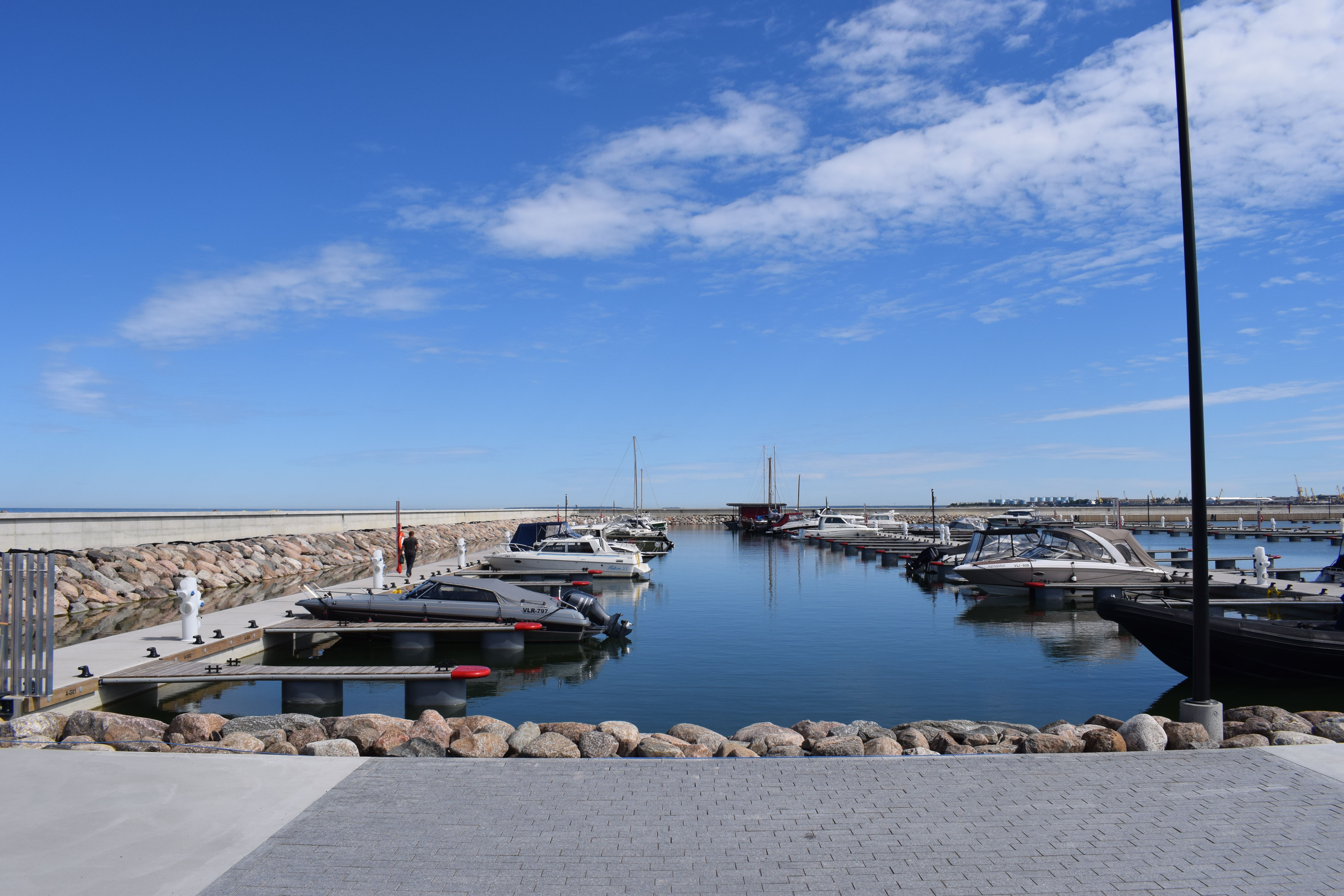 Haven Kakumäe